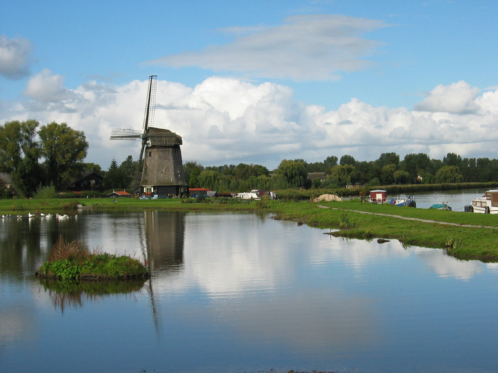 The Ambachtsmolen in Alkmaar, Nederland.